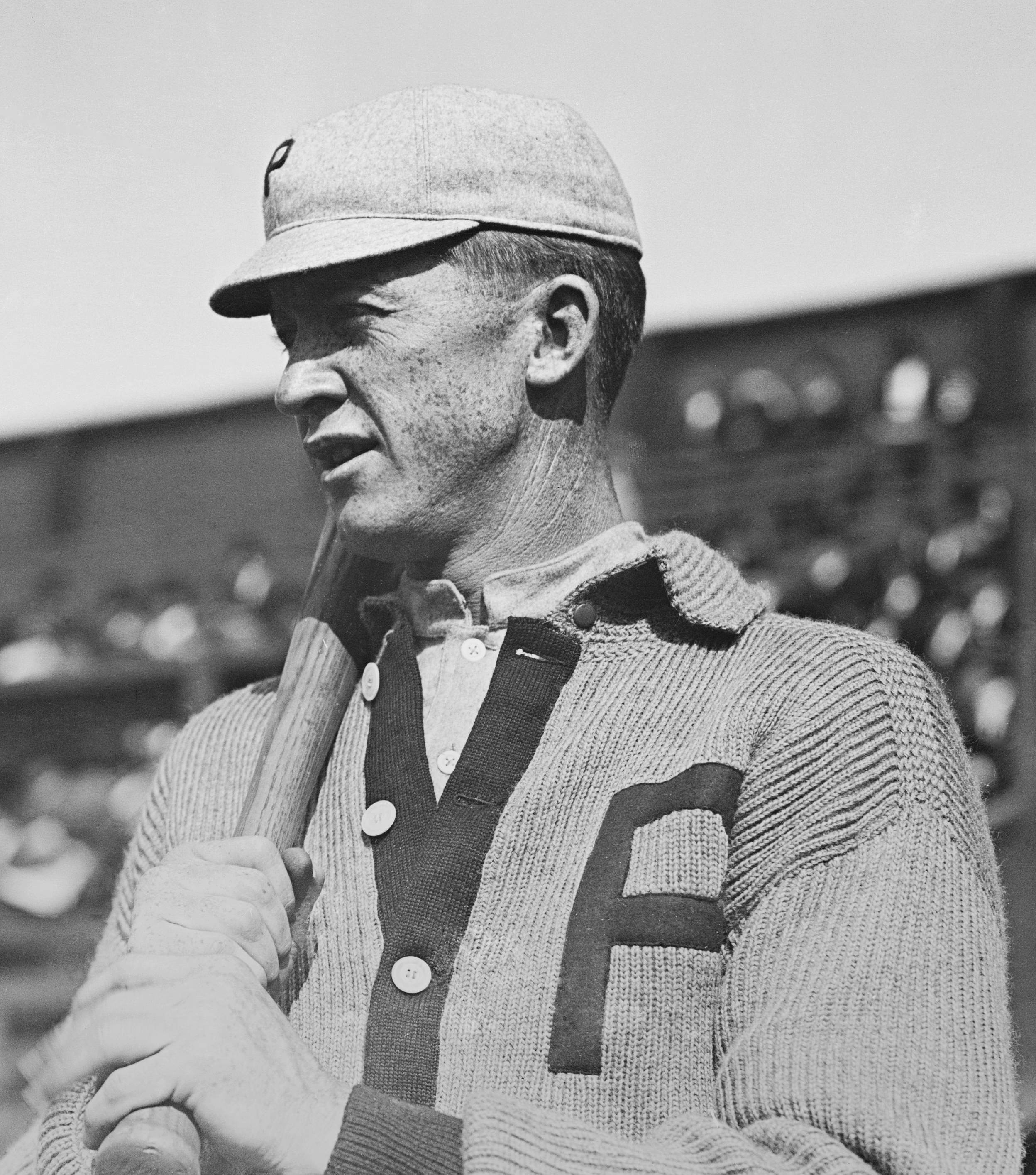 Grover Cleveland Alexander, Philadelphia, NL (baseball) Notes: Original data provided by the Bain News Service on the negatives or caption cards: Alexander, Phila. Corrected title and date based on research by the Pictorial History Committee, Society for American Baseball Research, 2006.